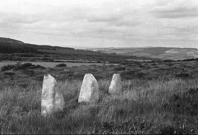 The Three Friars, Smithstown, Co. Kilkenny. An alignment of three granite pillars, 3-4 feet high, on a hill overlooking a crossroads on the Mullinavat to New Ross road. Looks north to the valley of the Arrigle River.